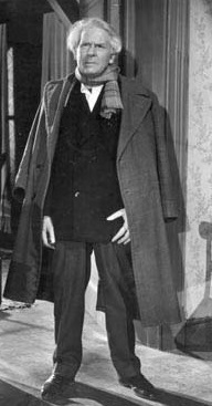 Plácido Martín-actor chileno